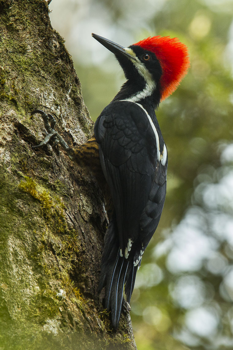 Powerful Woodpecker - Ecuador_S4E2767